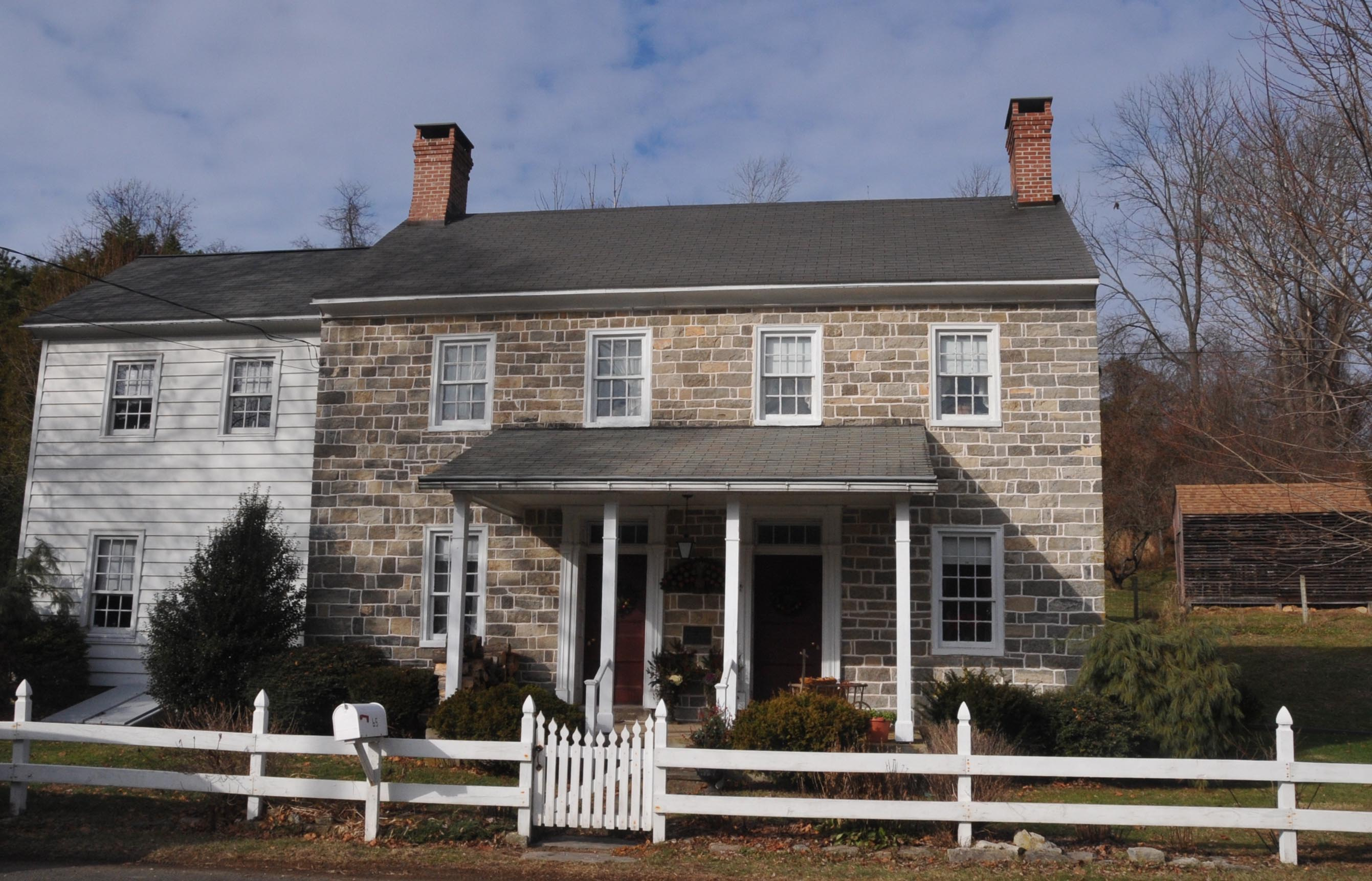 BUILT 1825; DIRECTLY ACROSS THE ROAD IS HUNT’S MEADOWS WHERE IN 1778 60 CONTINENTAL HORSES WERE WINTERED